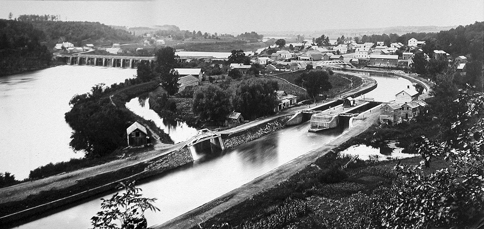 A stone aqueduct of the Erie Canal crosses the Mohawk River in Rexford, New York.